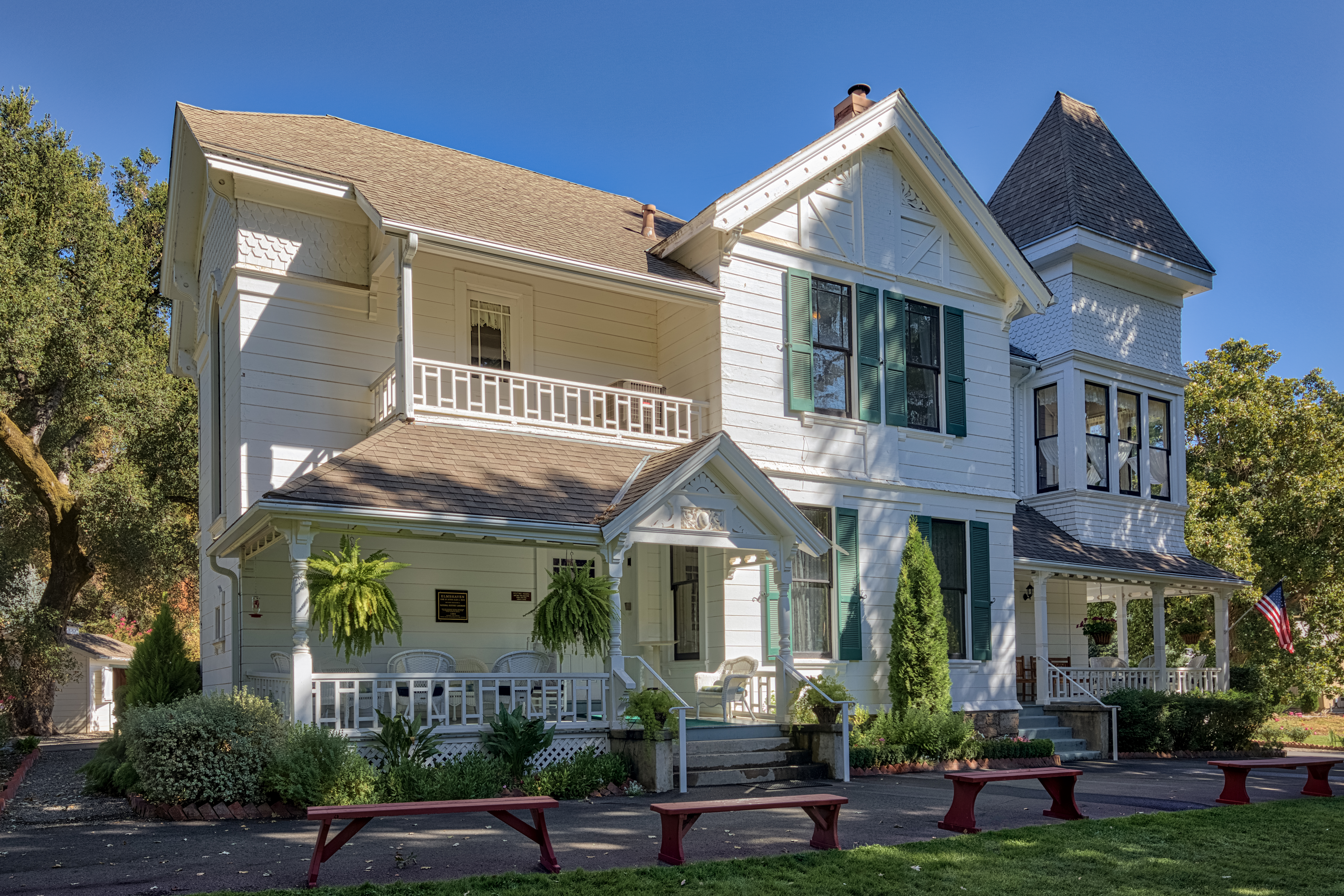 Elmshaven (Ellen G. White House), St. Helena, Napa County, California